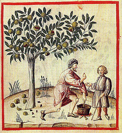 Nature: Warm in the first degree, dry in the second. Optimum: The marrons of Brianza, well ripened. Usefulness: They exercise an influence over coitus and are very nourishing. Dangers: They inflate, and cause headaches. Neutralization of the Dangers: Cooking them in water.